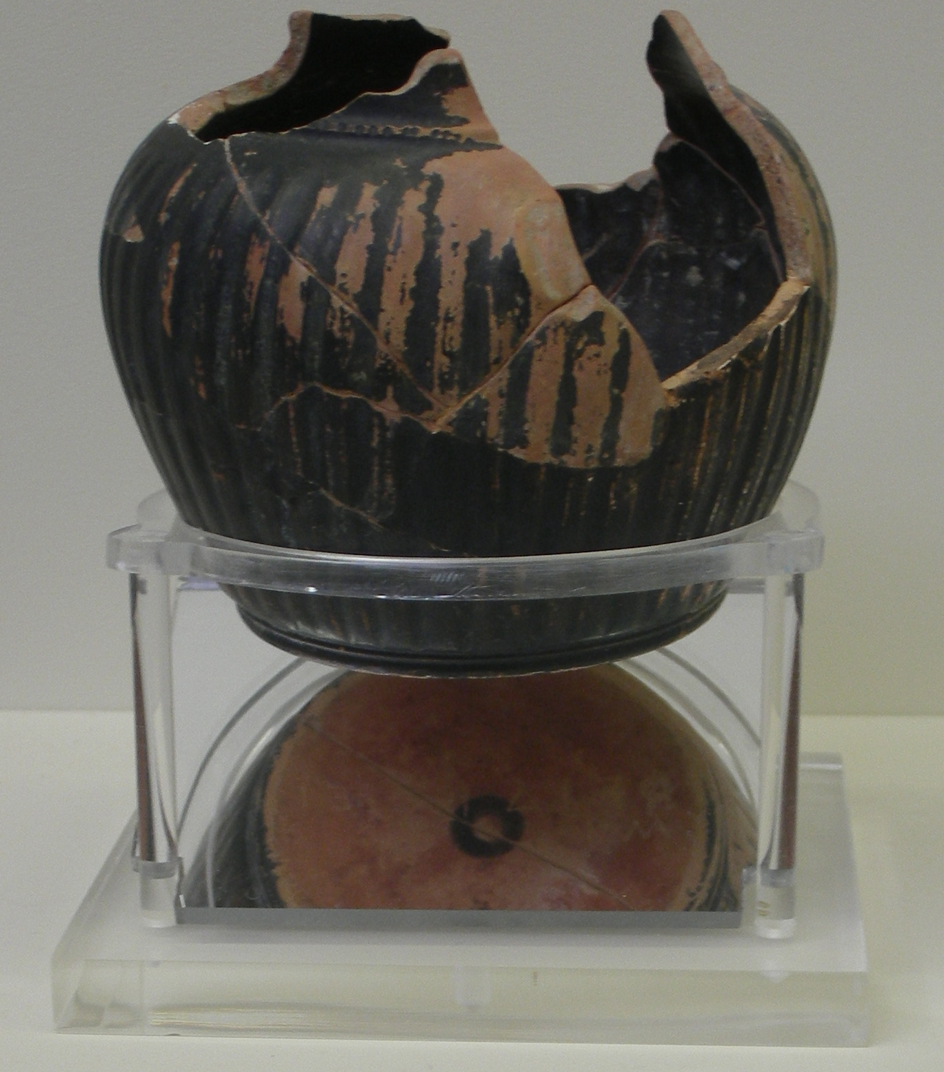 Phidias cup bearing the inscription ΦEIΔIO EIMI 2nd half of the 5th century BCE